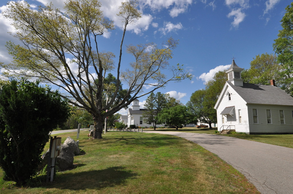 View of the Salem Historic District, Salem, Connecticut.